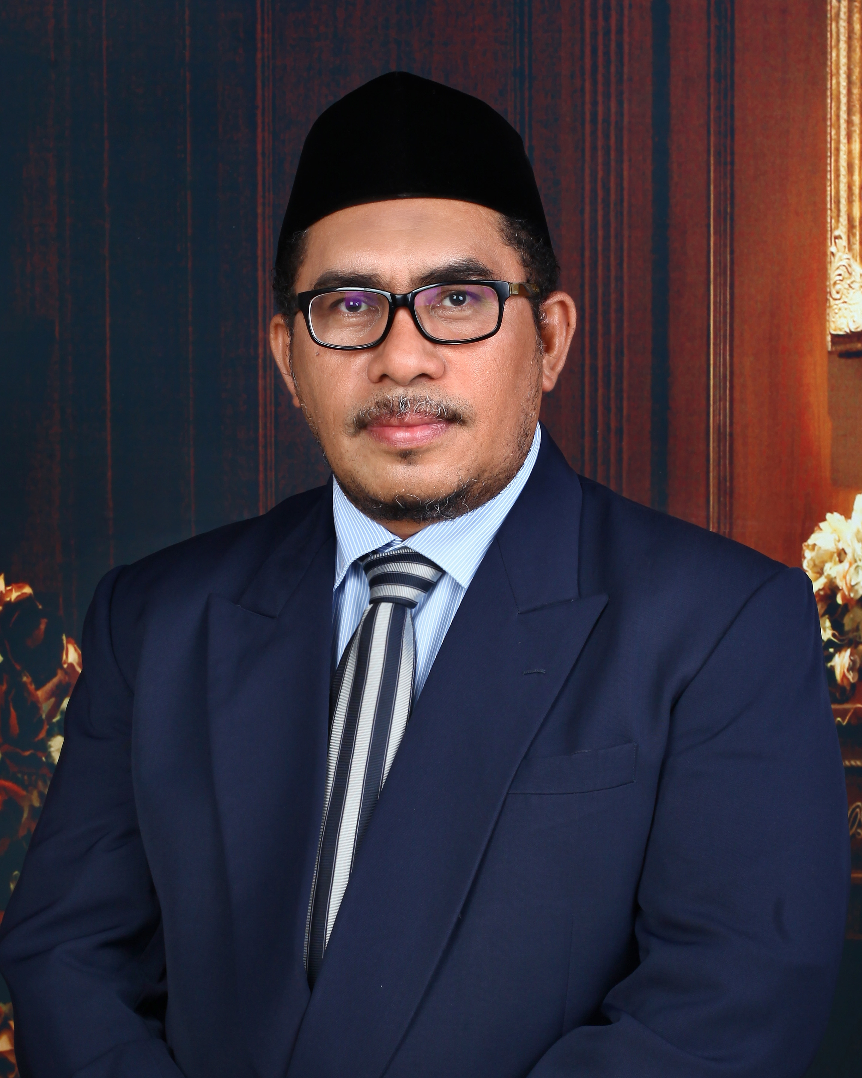 The official portrait of Habib Ali Alwi as a member of the Regional Representative Council of the Republic of Indonesia period 2014-2019